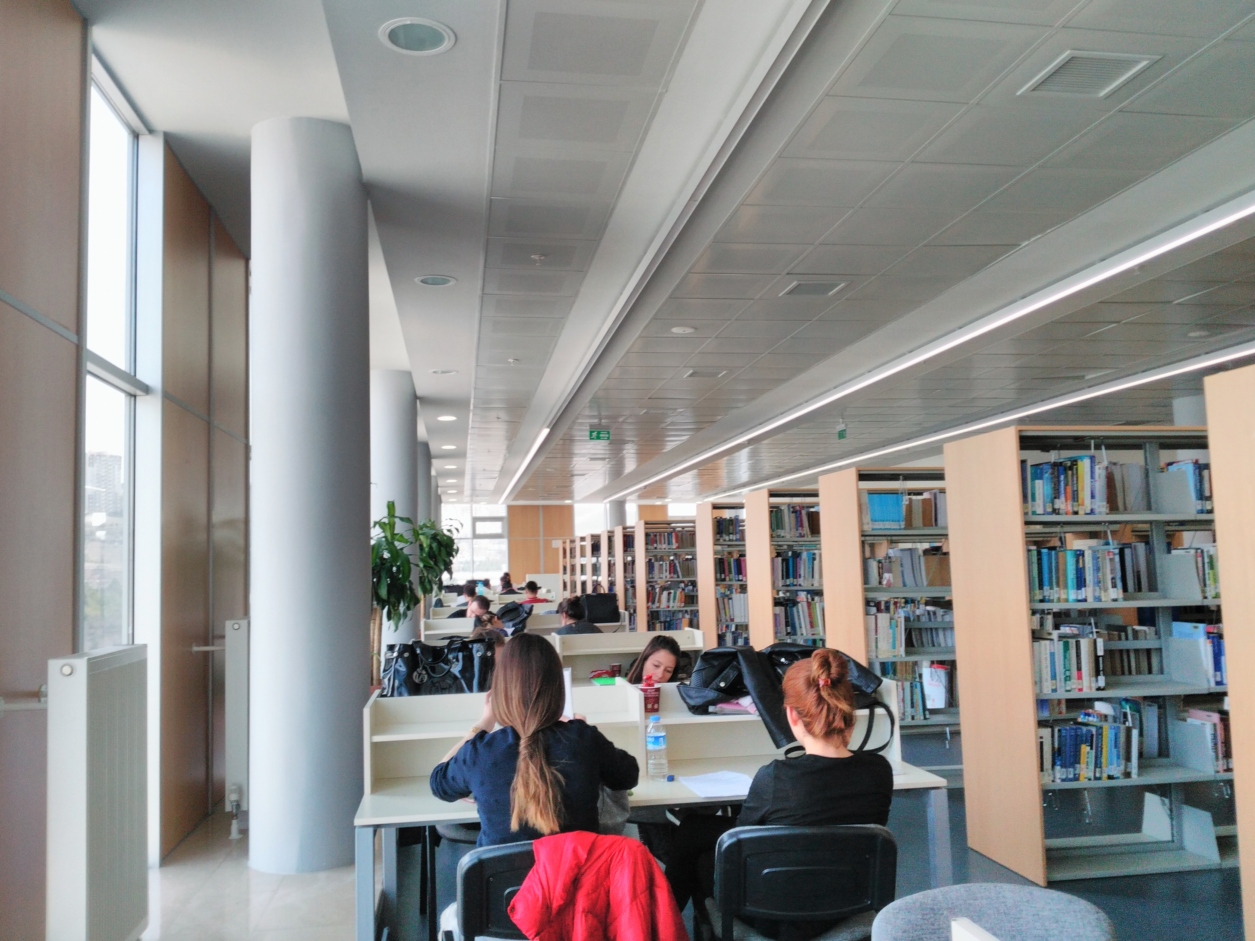 Çankaya University Library Srpskohrvatski / српскохрватски: Univerzitetska biblioteka Ćankaja univerziteta u Ankari.